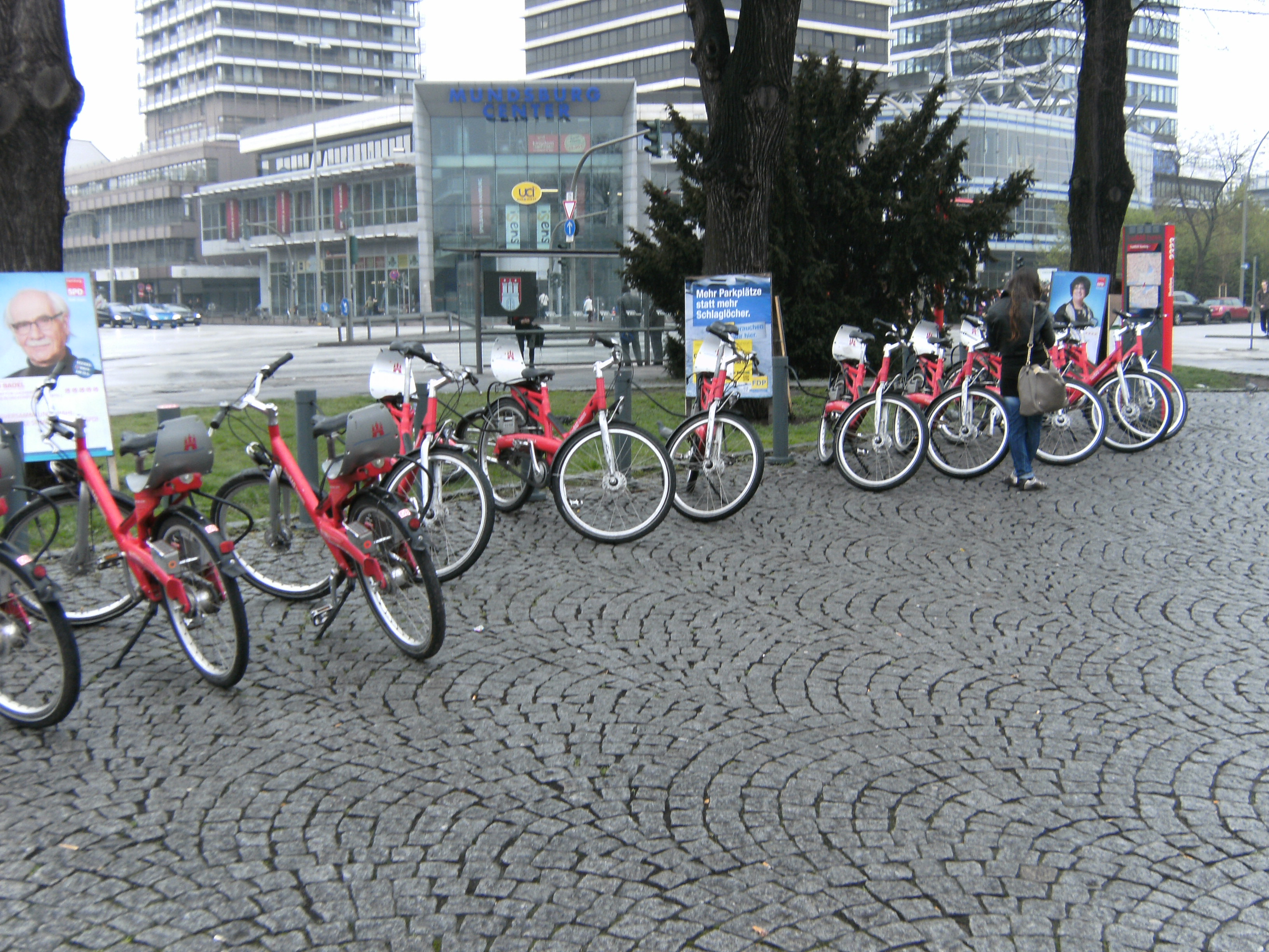 Bycicles to rent by StadtRAD Hamburg, Station Mundsburg.